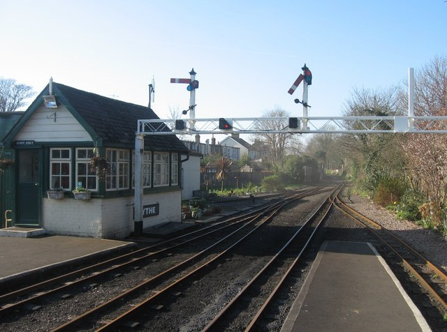 Signal Gantry - Hythe Station